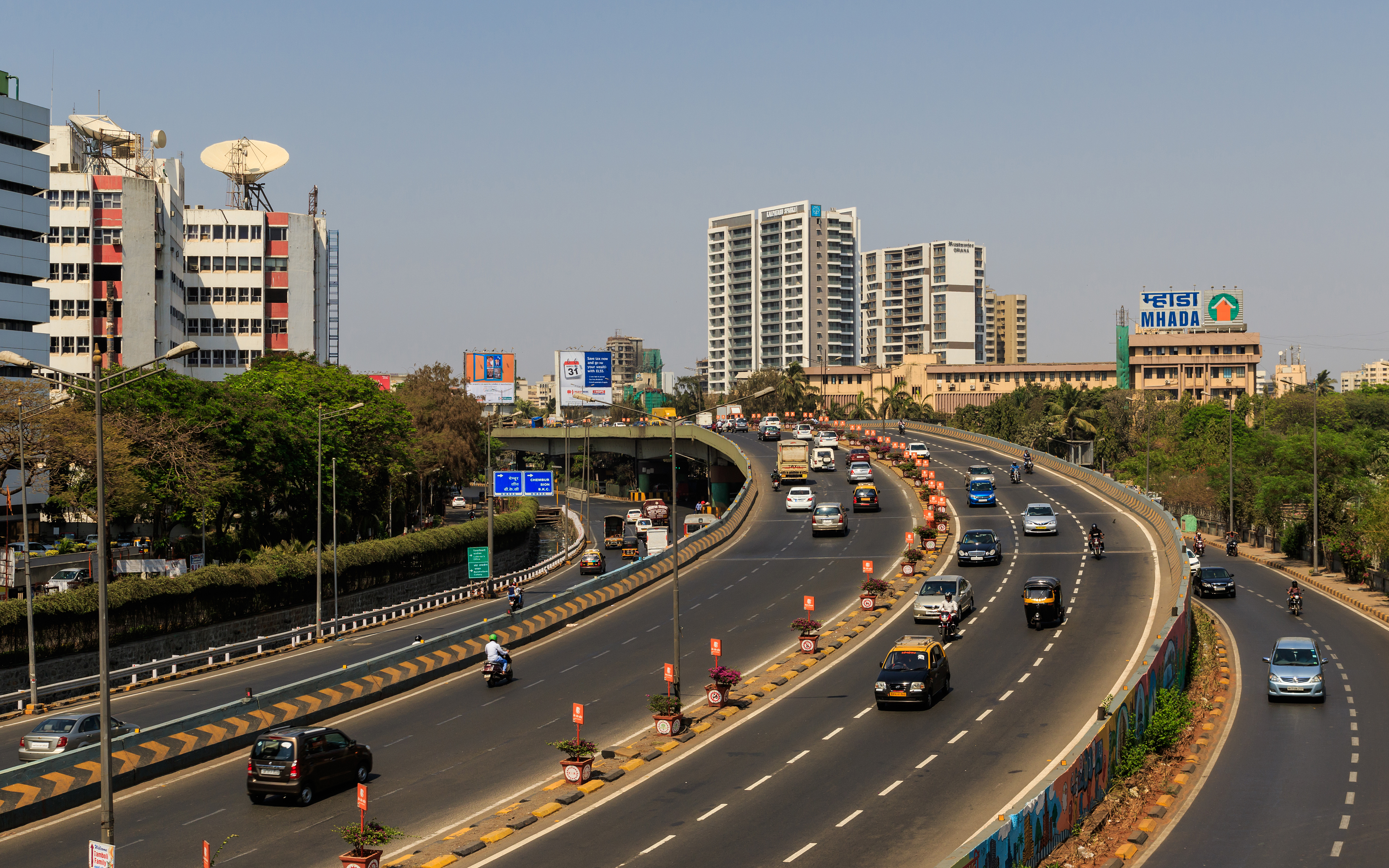 The Western Express Highway near Bandra railway station in Mumbai, India